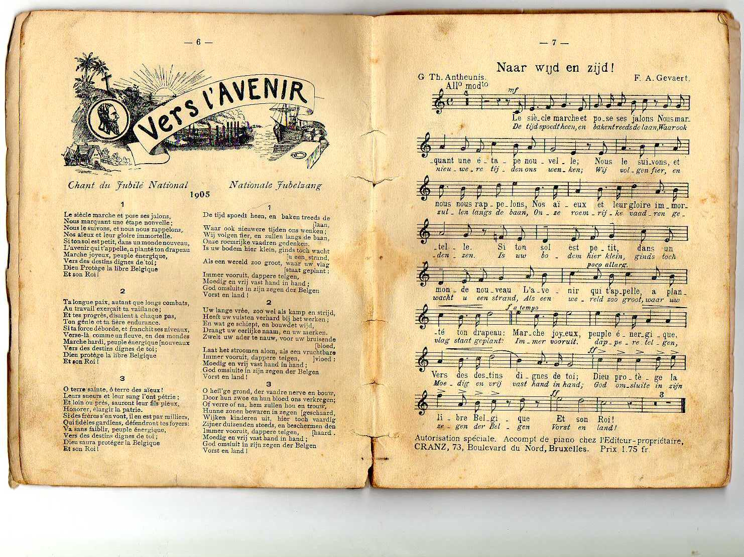 Pages 6 and 7, from the Songbook of the Young Catholic Guards of Ixelles/Elsene (a municipality in the Brussels Region), with the "Chant du Jubilé National/Nationale Jubelzang" "Vers l'avenir/Naar wijd en zijd", Dutch and French lyrics by G. TH. Antheunis and music by F.A.Gevaert. The song became the hymn of the Belgian Colony Congo.